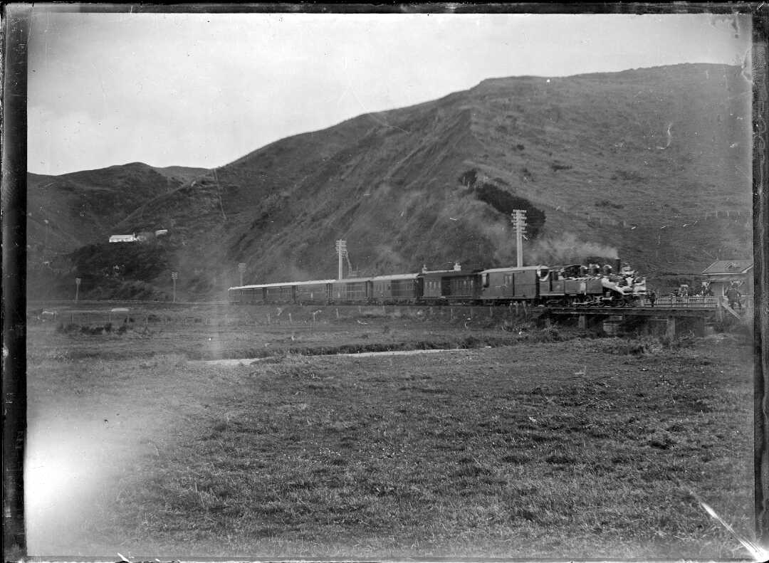 View of the train used for the royal visit of 1920, travelling along the side of a hill, and over a small bridge. Location unknown. Photographed by A P Godber.